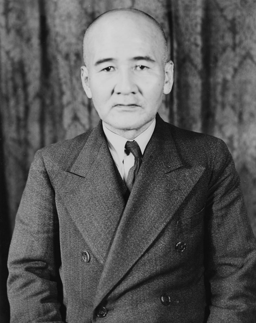 Takazumi Oka during the trial for war crimes at International Military Tribunal for the Far East